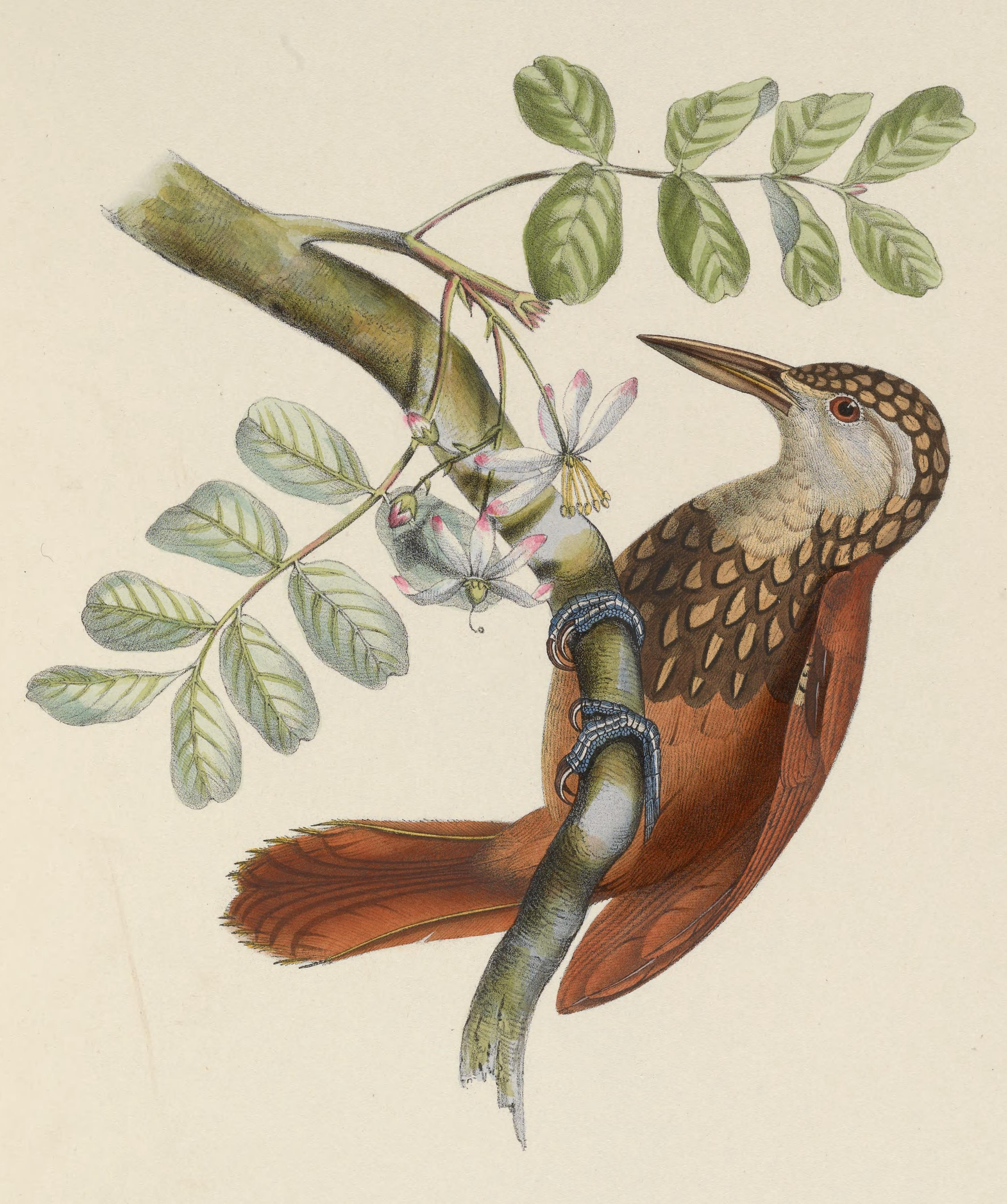 Dendroplex picirostris = Dendroplex picus (Straight-billed Woodcreeper)